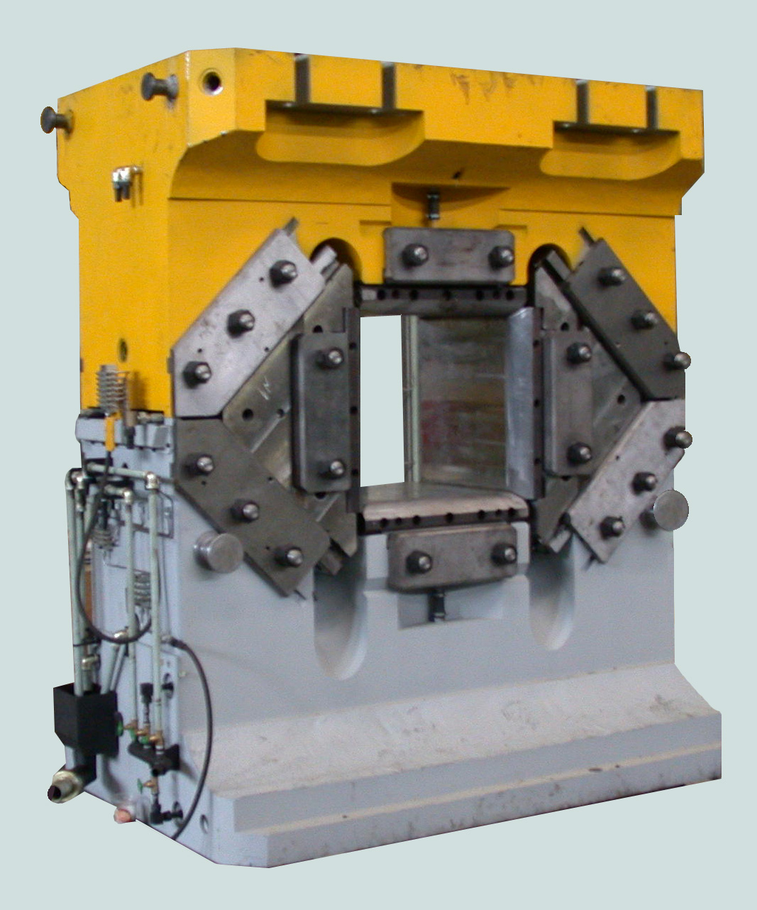 Four-die forging device is a special forging tool to make forgings with long axis (bars, shafts, tubes, etc.) by four-side radial forging method at a hydraulic forging press